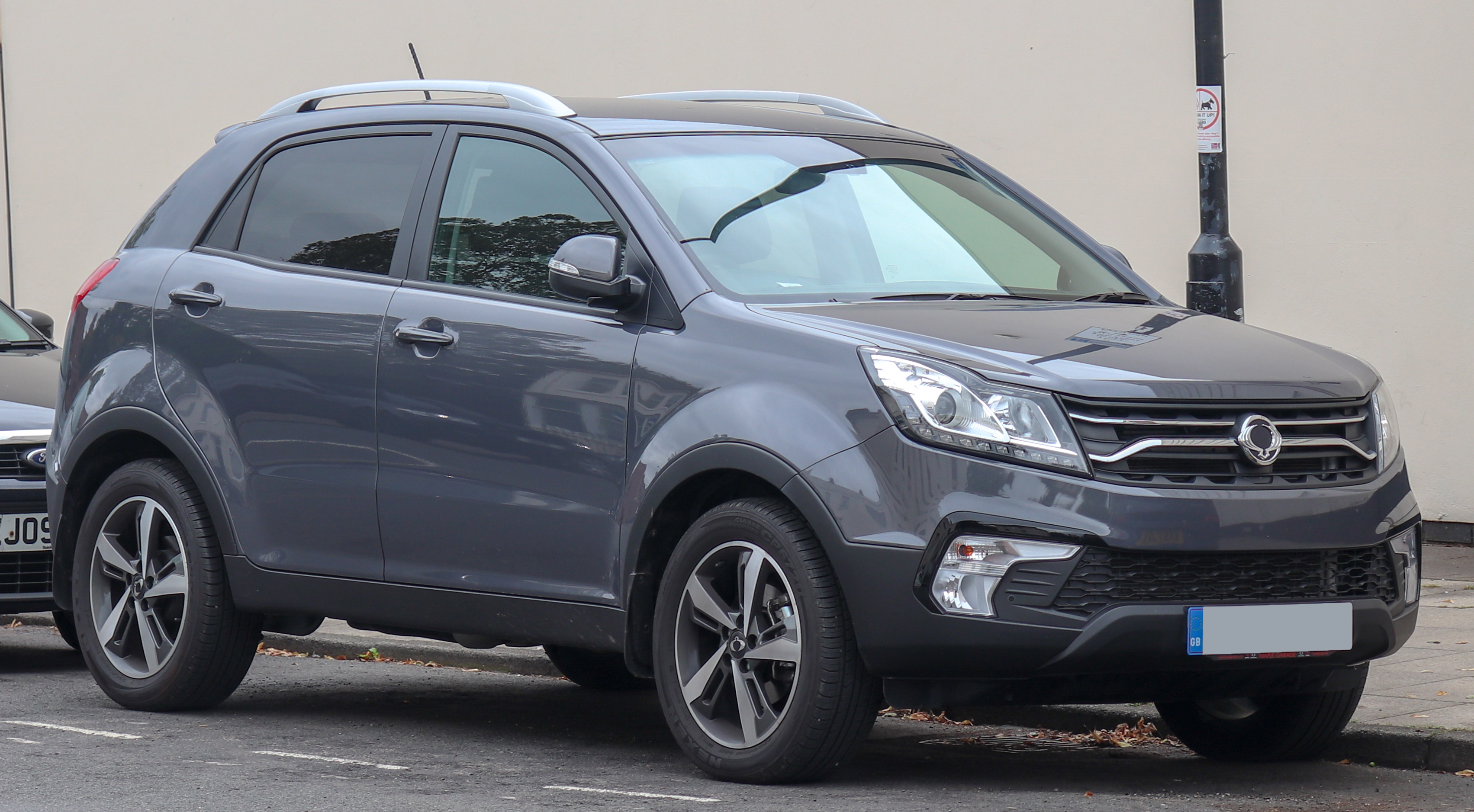 2018 SsangYong Korando ELX 4X4 2.2